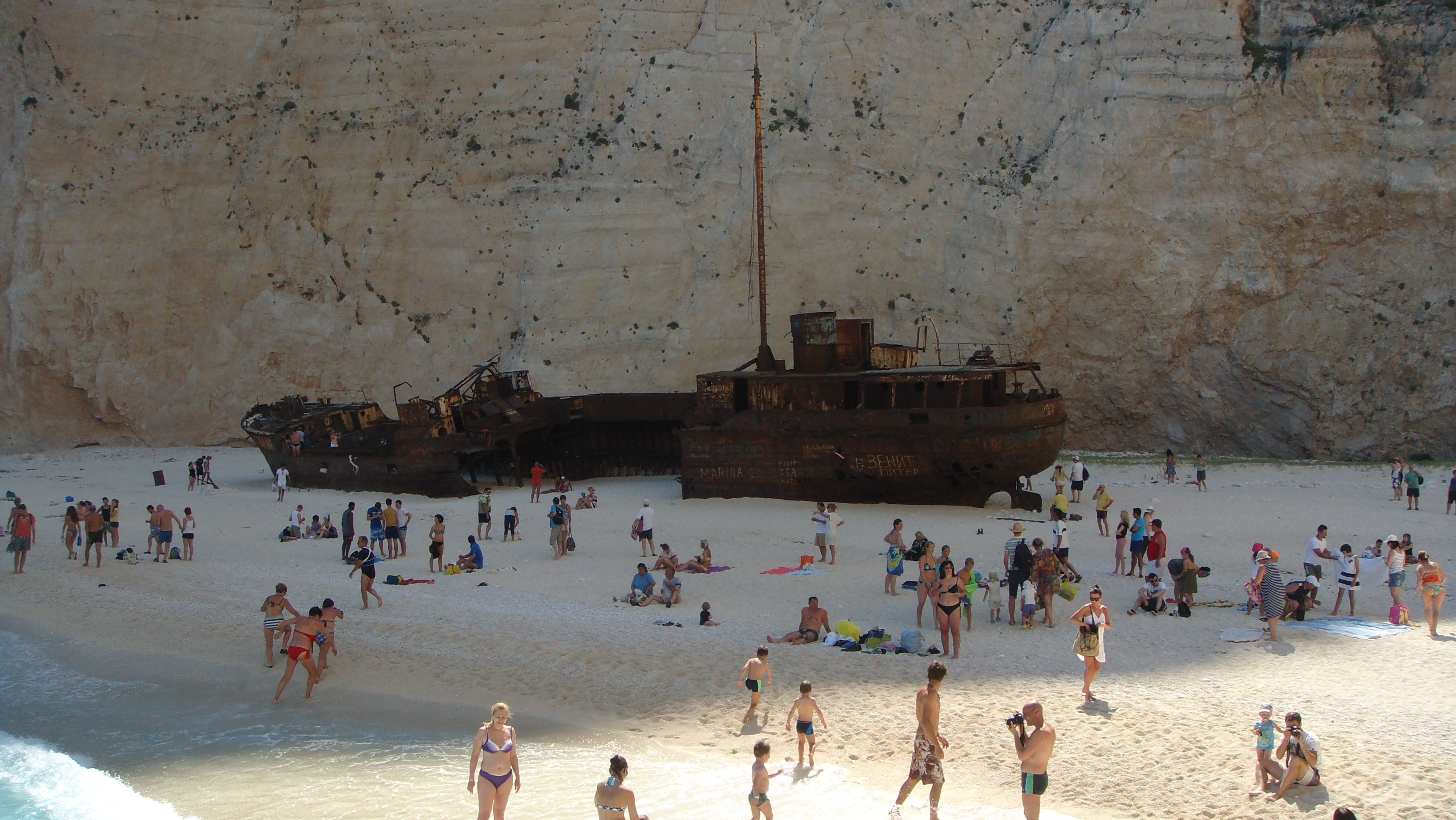 Unnamed Road, Zakinthos 290 91, Greece